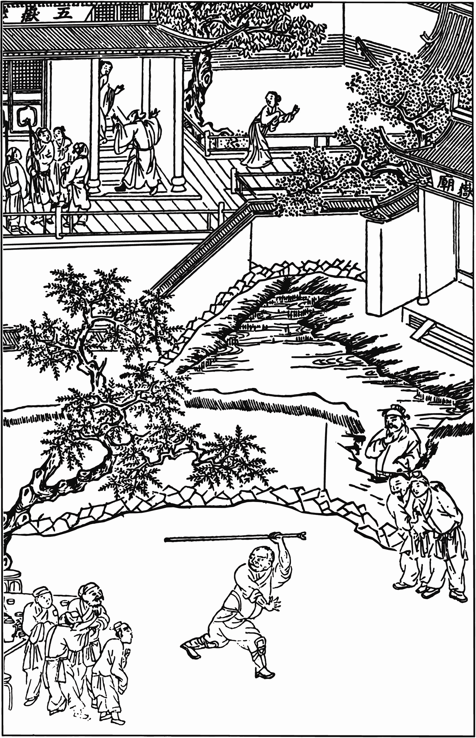 Illustration of ancient Chinese book Outlaws of the Marsh (In the foreground of this image, the character Sagacious Lu is showing his skill in weapons to some vagabonds, in the background the wife of the towns arms instructer is being accosted by several men.)